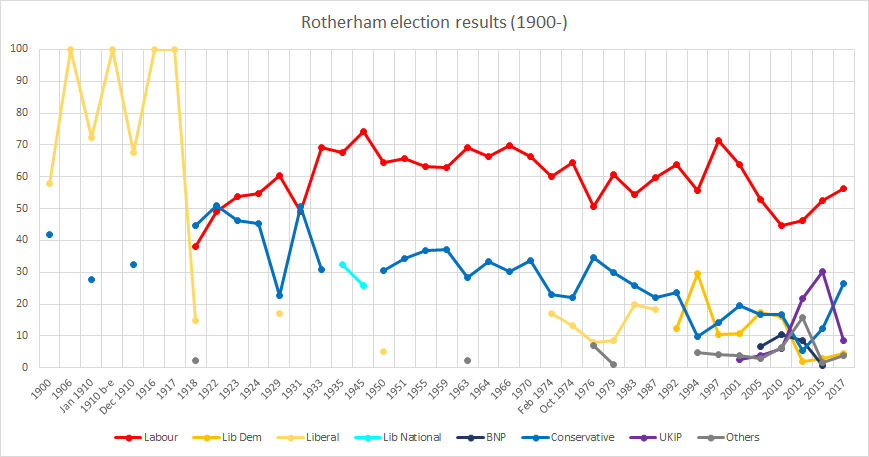 Rotherham electoral history